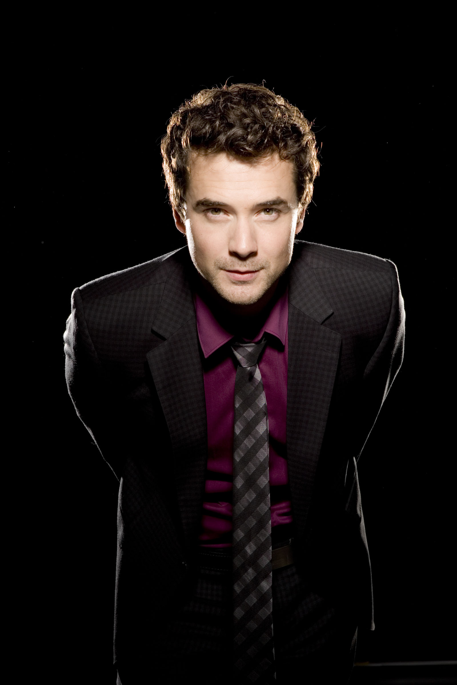 "Kaeshammer" photoshoot picture